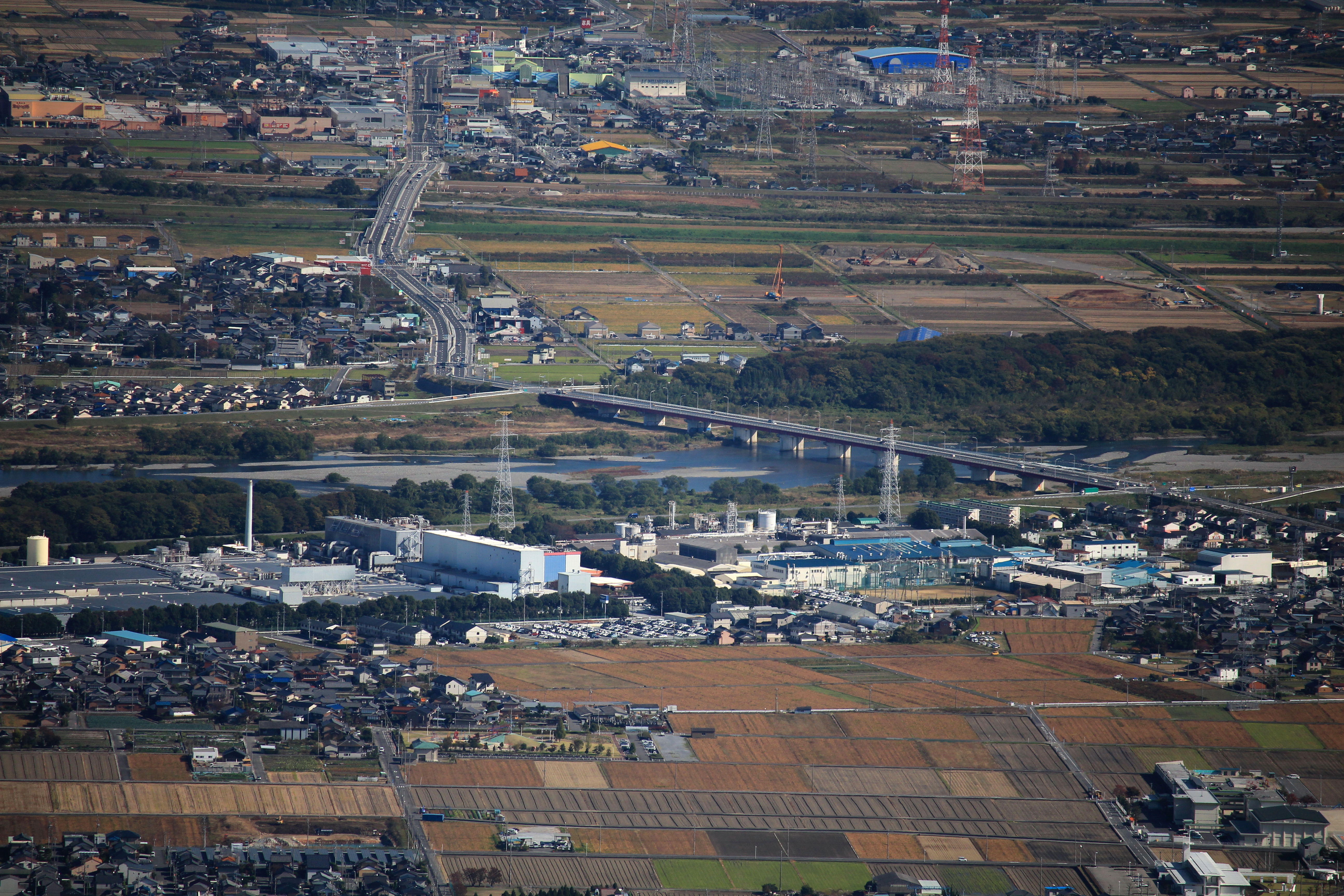 Neo River Bridge and Hiranosho Bridge in Gifu prefecture, Japan.